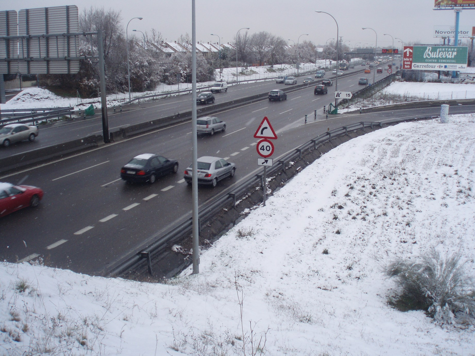 A-42 Highway in Getafe (Community of Madrid, Spain).